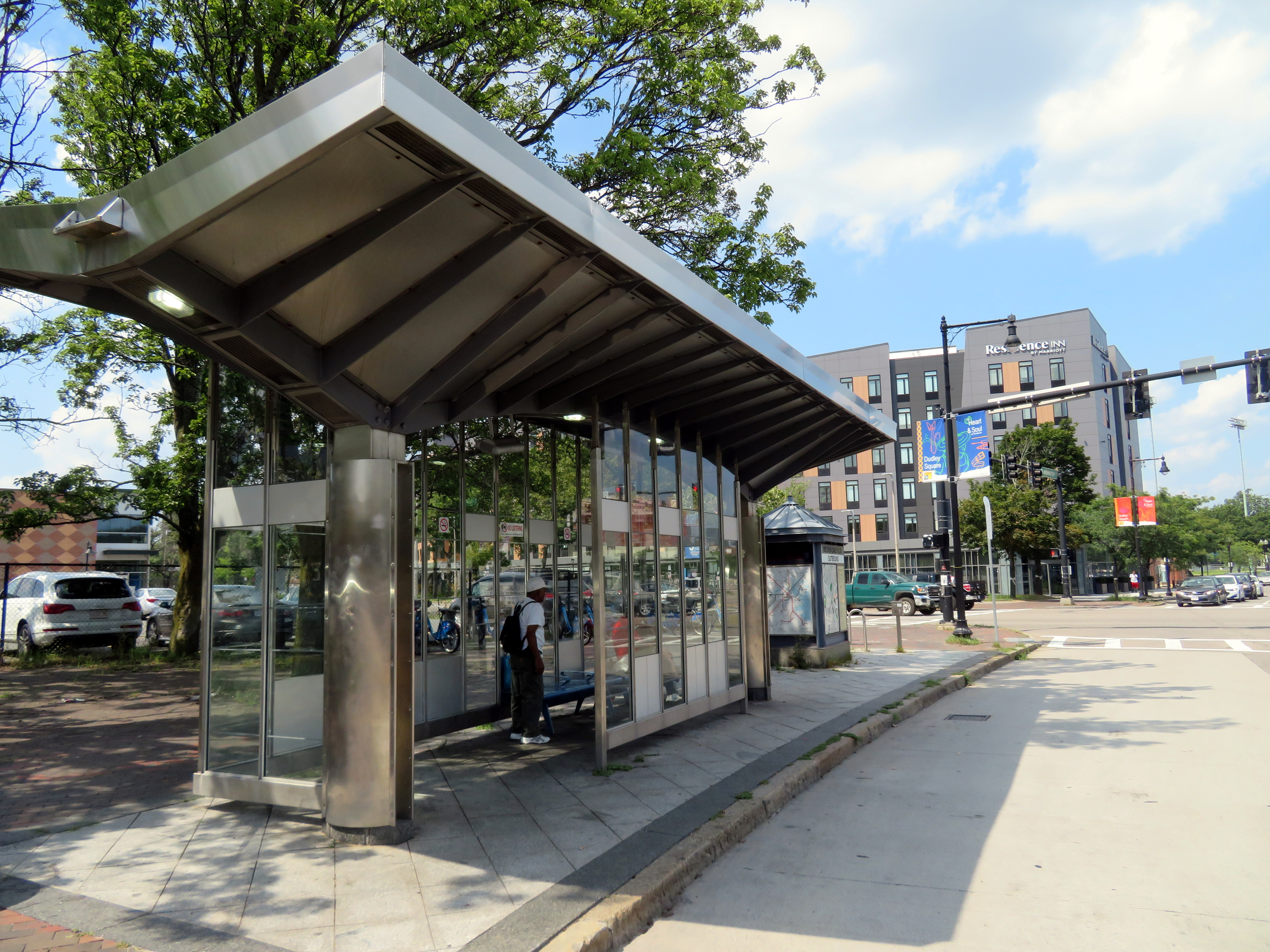 The southbound (outbound) Melnea Cass Boulevard station in July 2019